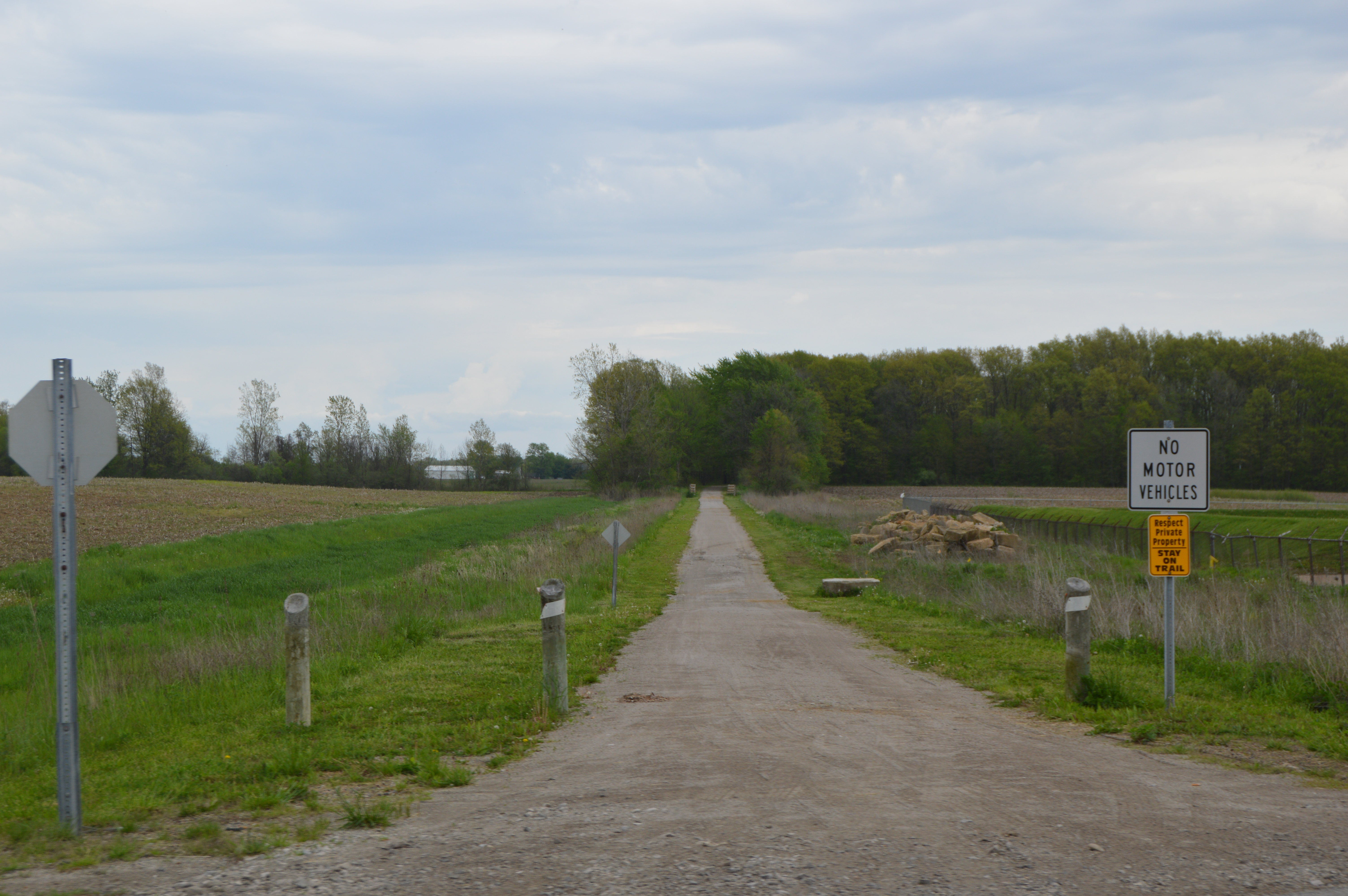 Looking east on the North Coast Inland Trail from State Route 601 in Norwalk Township, Huron County, Ohio, United States.